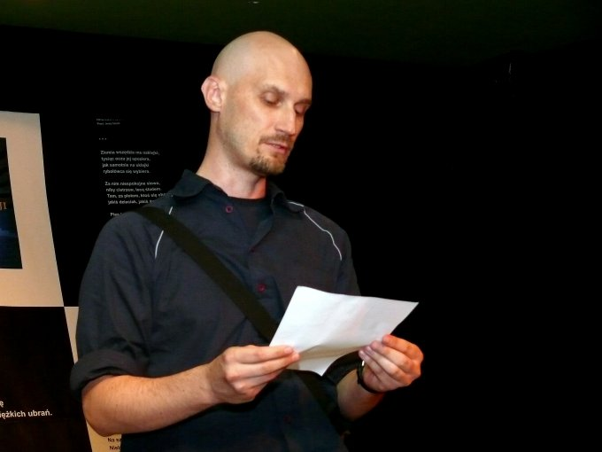 Dariusz Adamowski, Polish poet